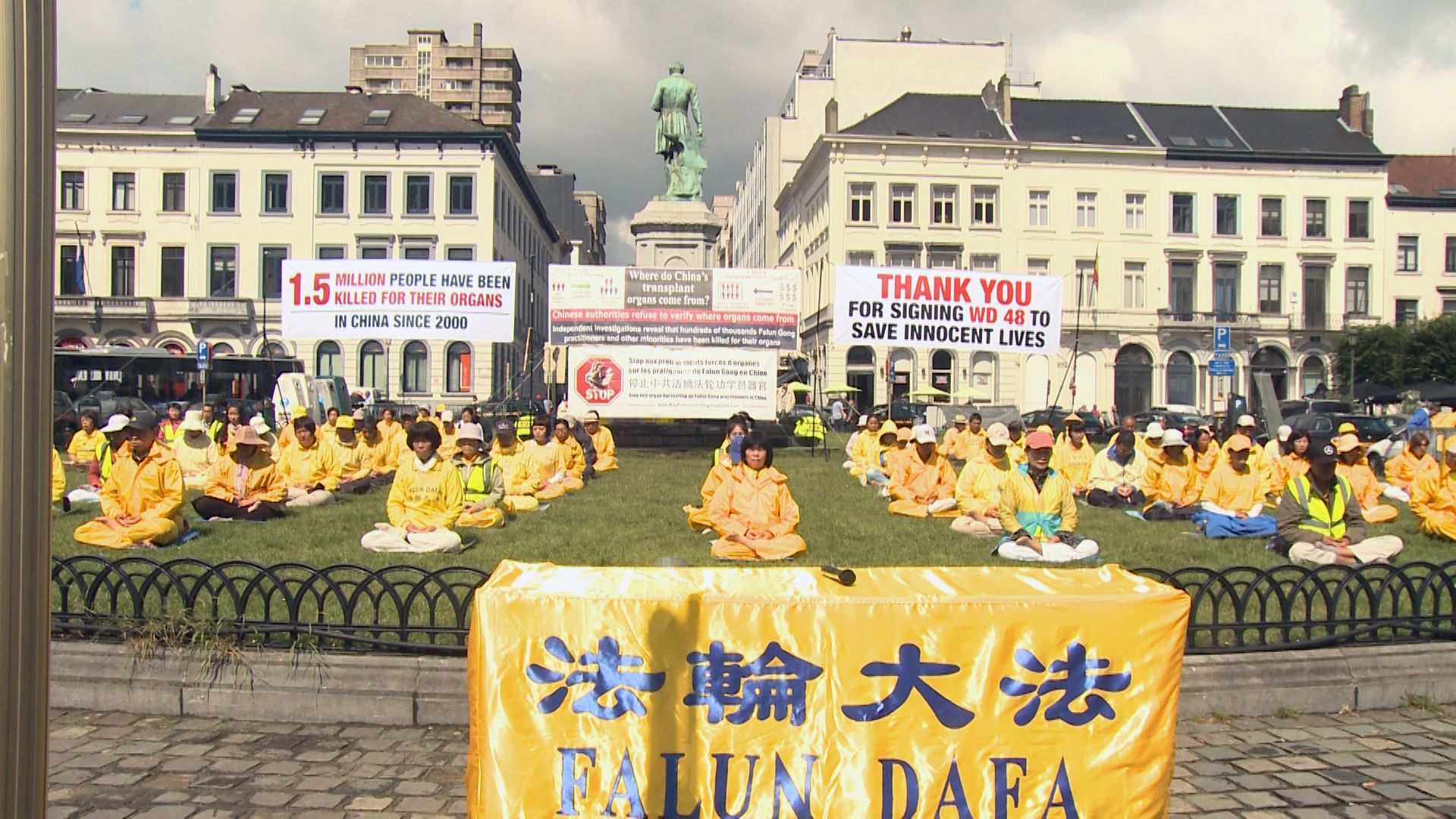 Falun Gong demostration outside the European Parliament on July 14th 2016 (Brussels). Falun Gong practitoners called MEPs to sign Written Declaration 0048/2016 on stopping organ harvesting from prisoners of conscience in China, primarly Falun Gong, but also Uygurs, Tibetans and House Christians. Falun Gong is still persecuted today by the Chinese regime.